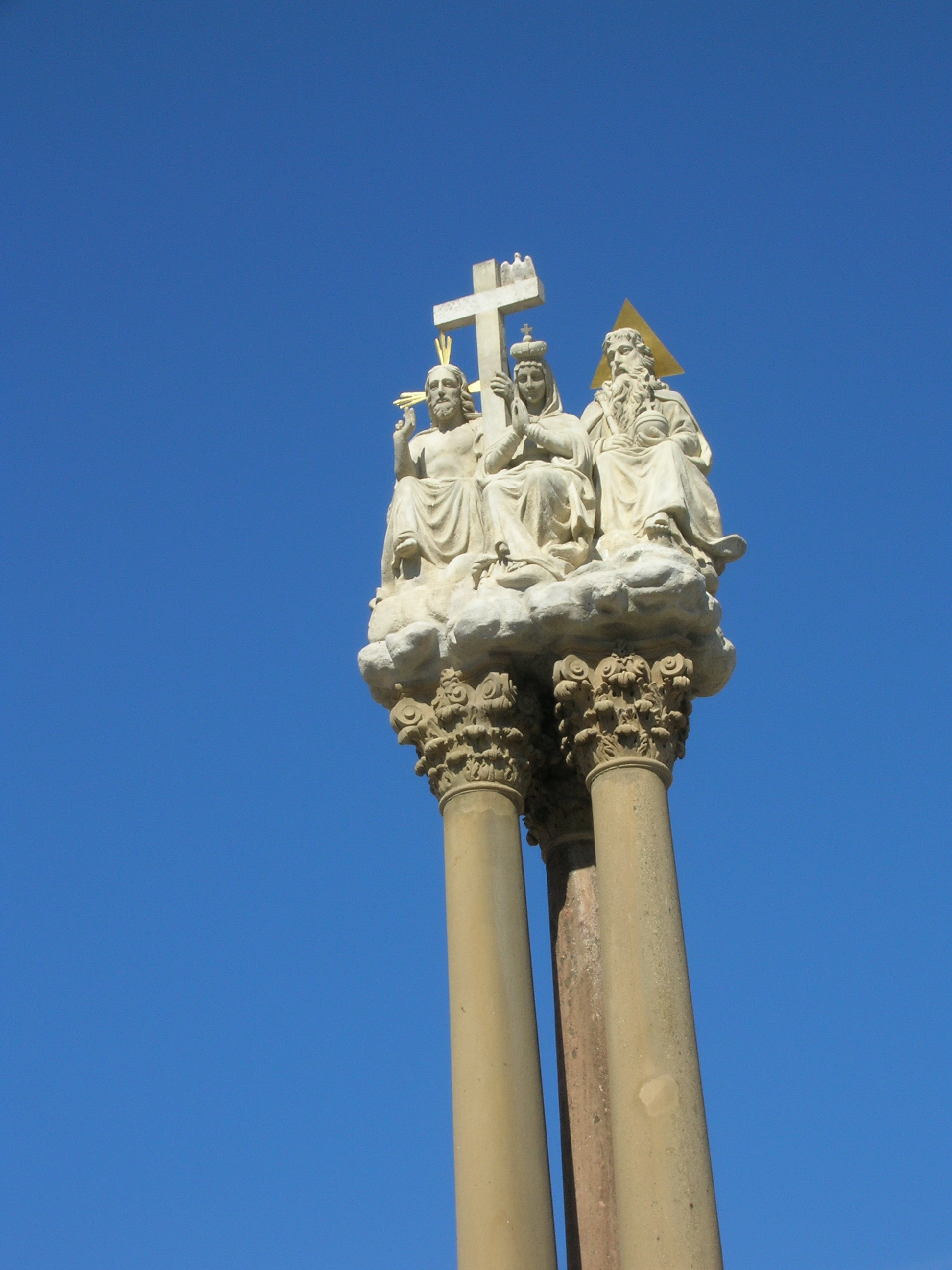 Jaroměřice nad Rokytnou. Holy Trinity Column on the Peace Square. Virgin Mary was given pride of place.